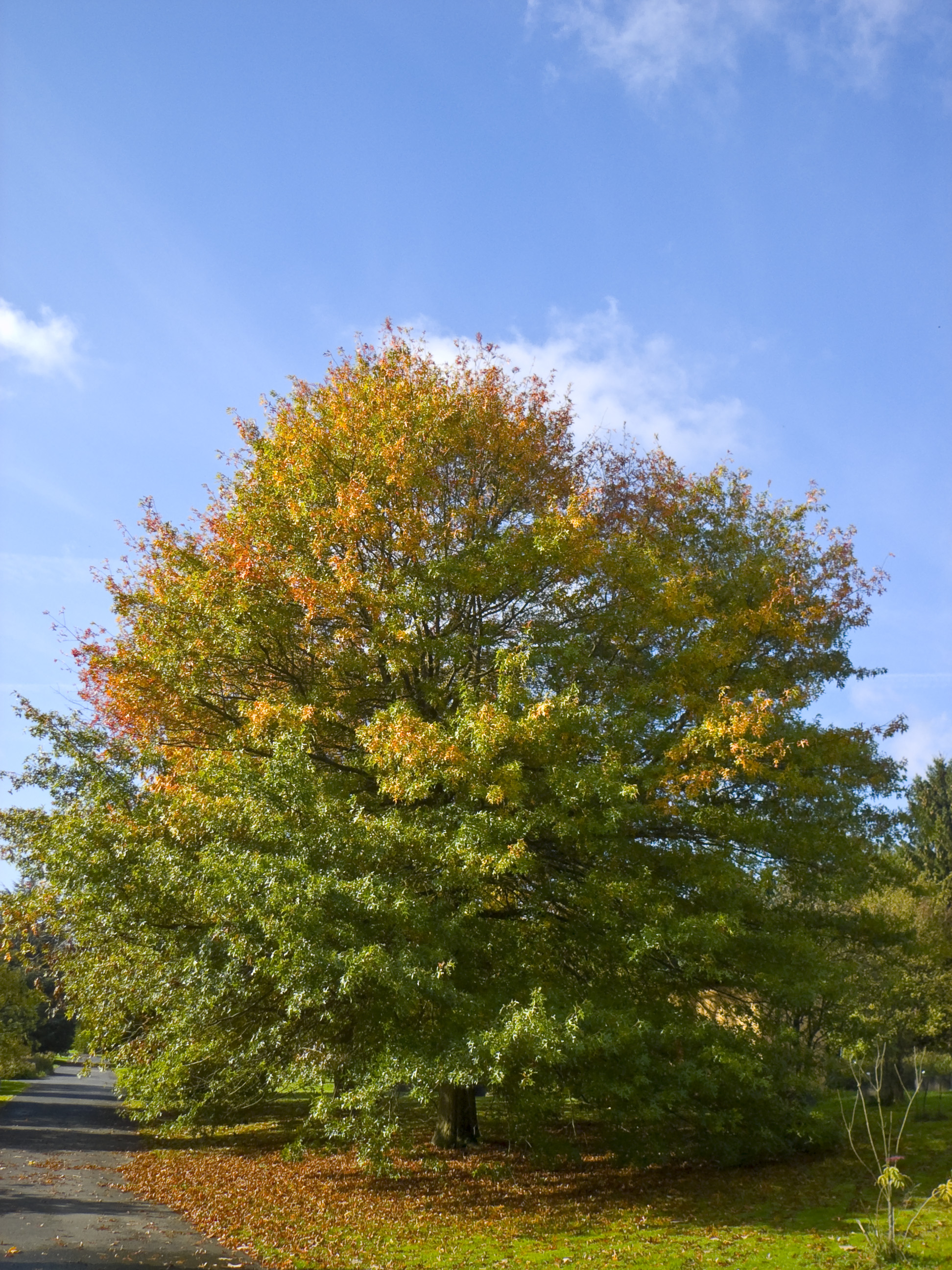 Pin-Oak (Quercus palustris) in the New Botanical Garden Marburg, Hesse, Germany